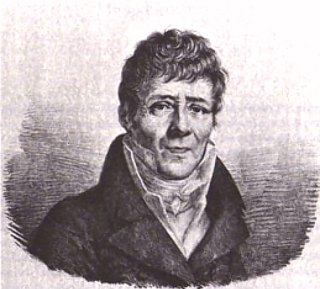 Anonymous portrait of french archaeologist Aubin-Louis Millin de Grandmaison (1759-1818)